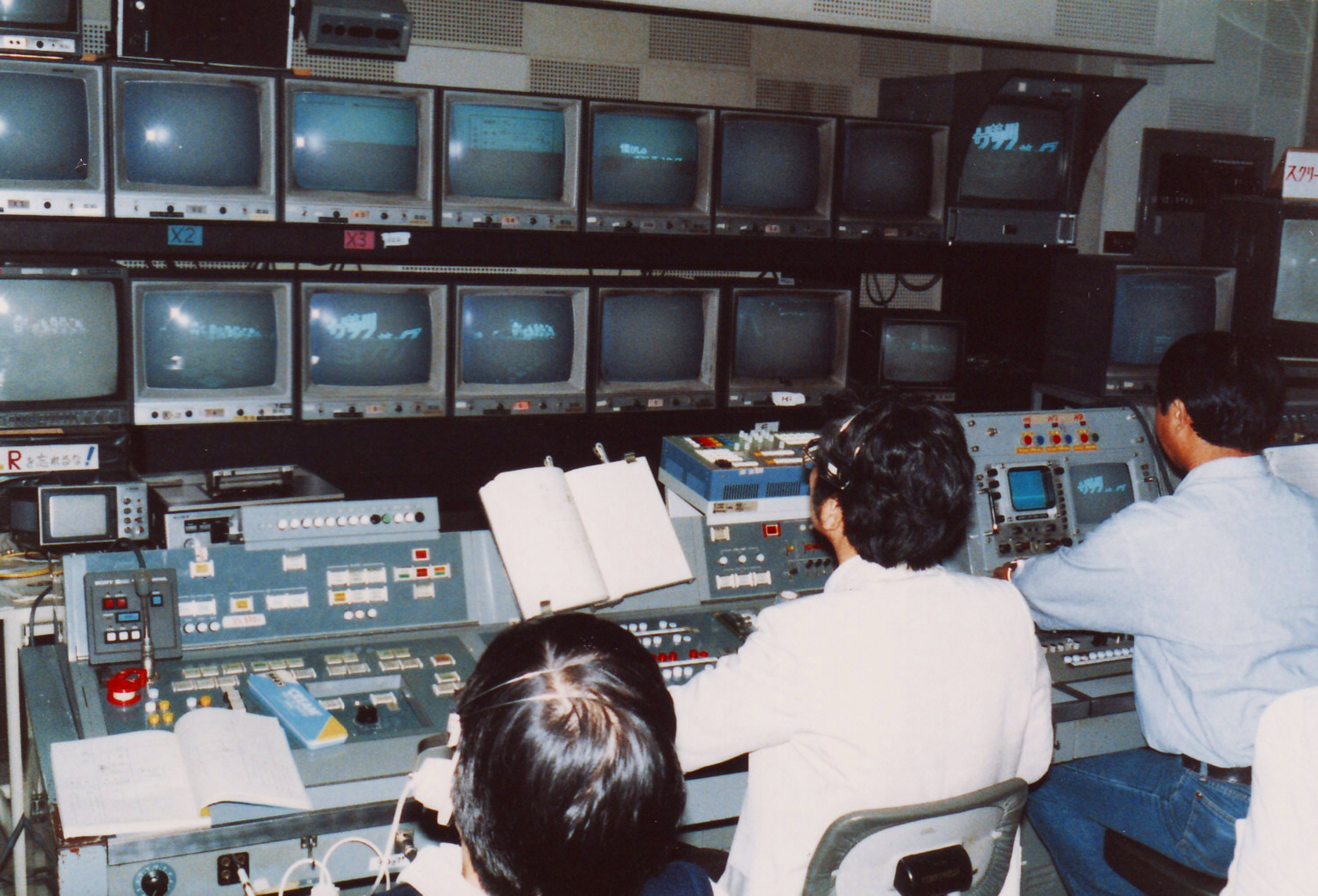 In the front Director's Assistant, Director and Video Switcher. In the background the picture monitors.